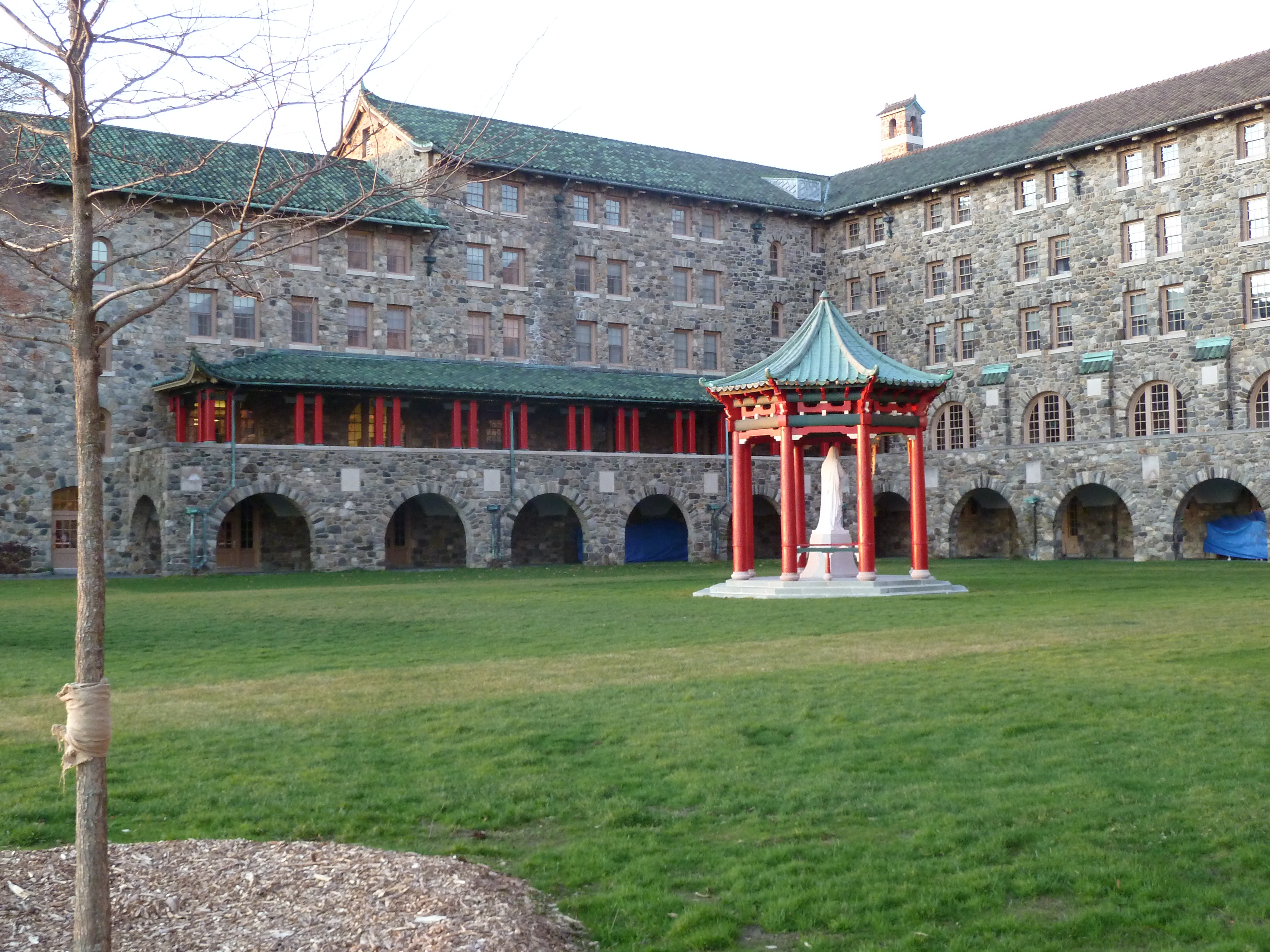 Photograph of the external Maryknoll Seminary building, with red hallway, in Ossining, NY.